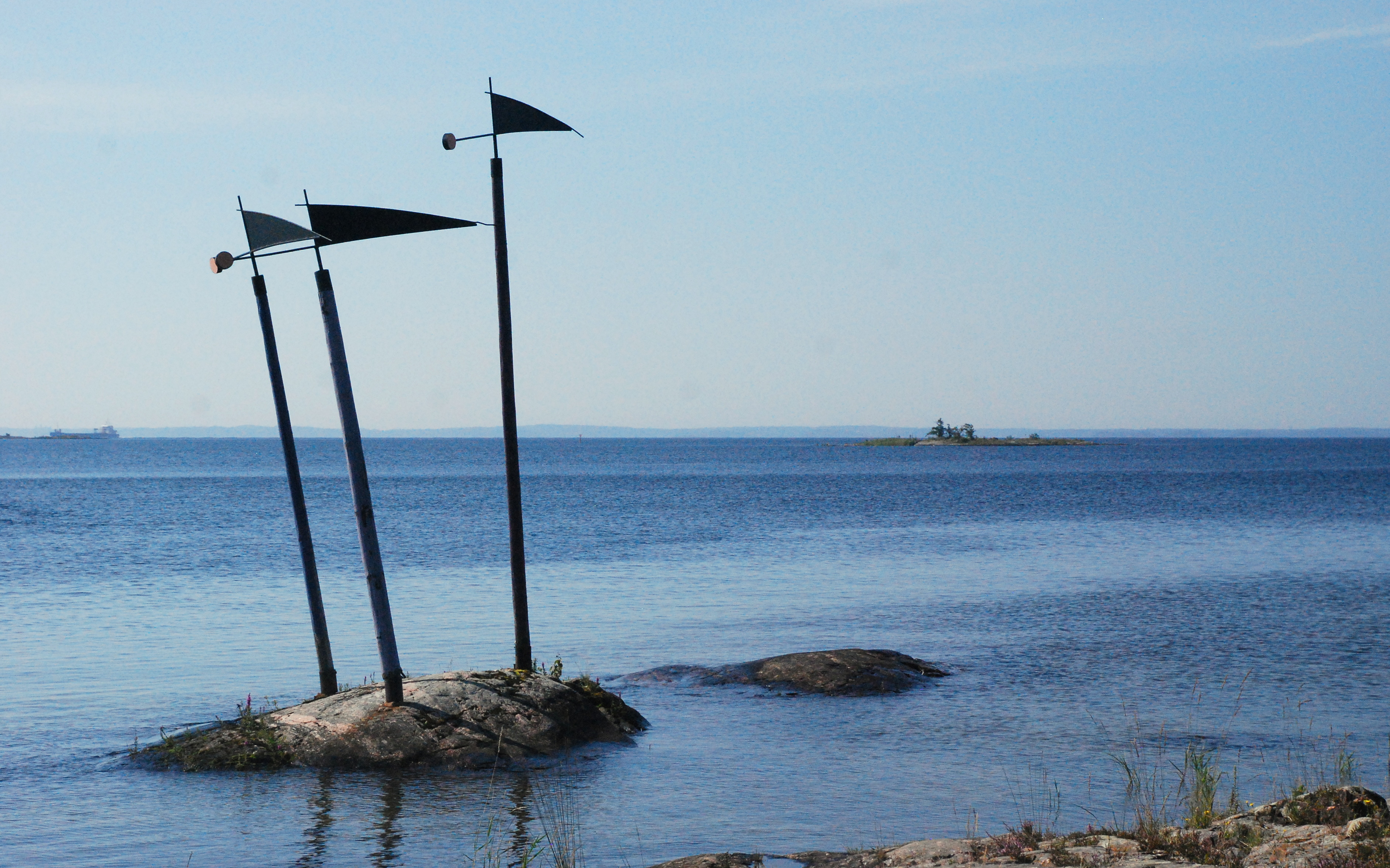 Skulptur på Stenstaka, Lurö